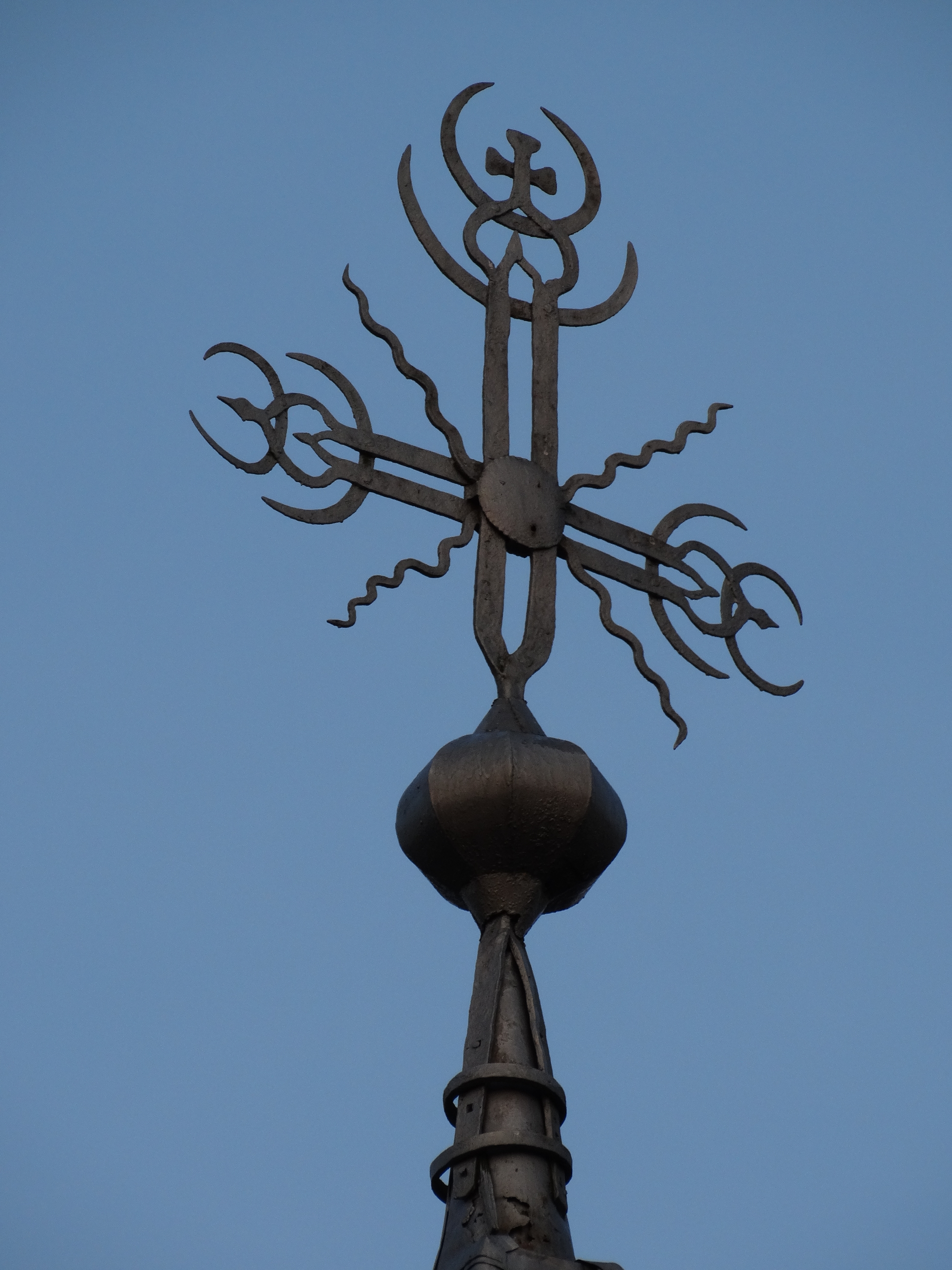 Chapel cross in Jasiuliškiai, Biržai district, Lithuania